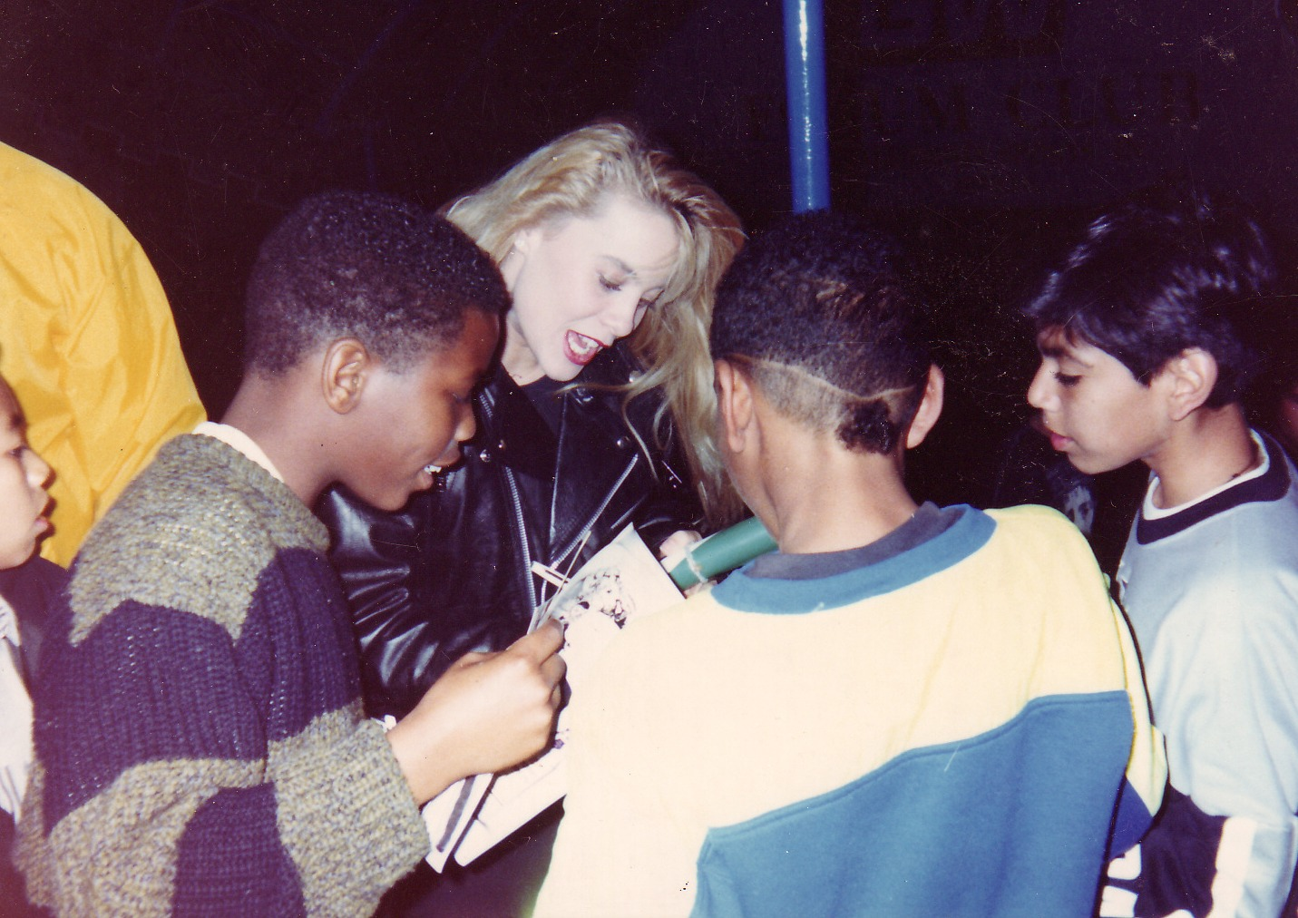 Lisa Joann Thompson signing autographs, early 1990s